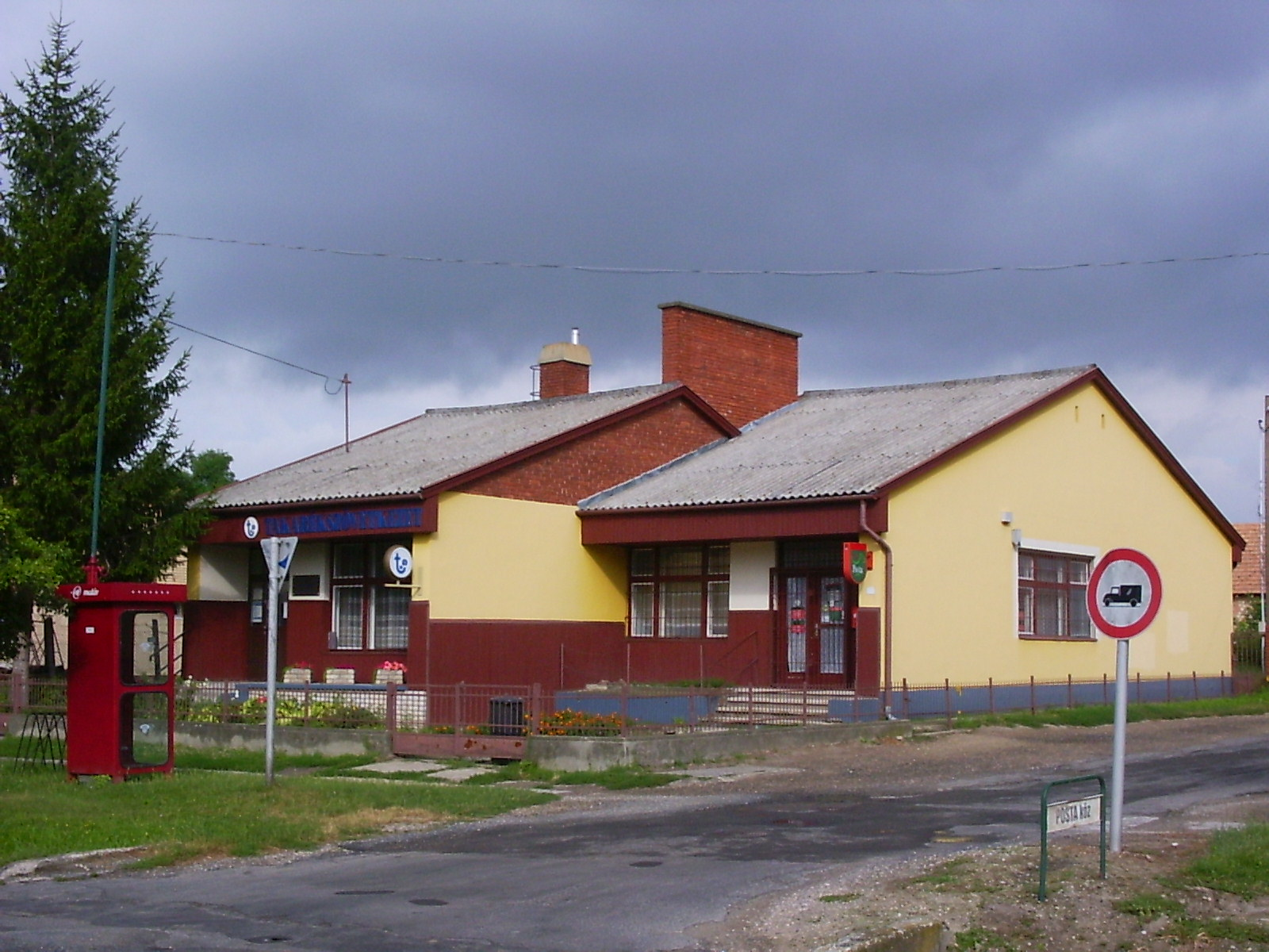 Pér, local bank